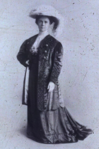 Portrait of a young Bessie Penniman in 1892, not long before she transferred to Cornell University where she would meet her future husband, Albert Johnson. Bessie is dressed in the fashionable clothes befitting a woman of great social standing and consequence.